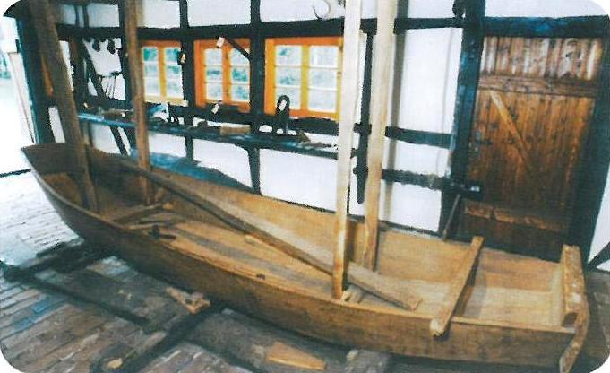 Torfschiffswerft Schlussdorf: Shipyard building hall half-finished Entenjäger boat